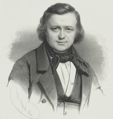 Belgian composer Charles-Louis Hanssens (1802—1871) Extracted from the book shown, on the Royal Library of Belgium website.